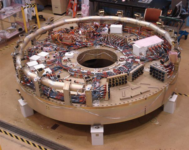 First Stage Avionics Module (FSAM): The Ares I-X avionics systems include components from the Atlas V Evolved Expendable Launch Vehicle, the Space Shuttle Program, and off-the-shelf developmental flight instrumentation (DFI), as well as a new component that will translate commands between the Atlas and Shuttle hardware. DFI hardware was installed throughout fabrication to reduce the amount of work performed at KSC. The hardware work is being managed by MSFC under contract to Jacobs Engineering in Tullahoma, Alabama and developed by Lockheed Martin in Denver, Colorado. Lockheed, which developed the Atlas avionics, also developed a systems integration laboratory (SIL) to simulate the flight configurations of the avionics and test the various systems’ ability to work together.